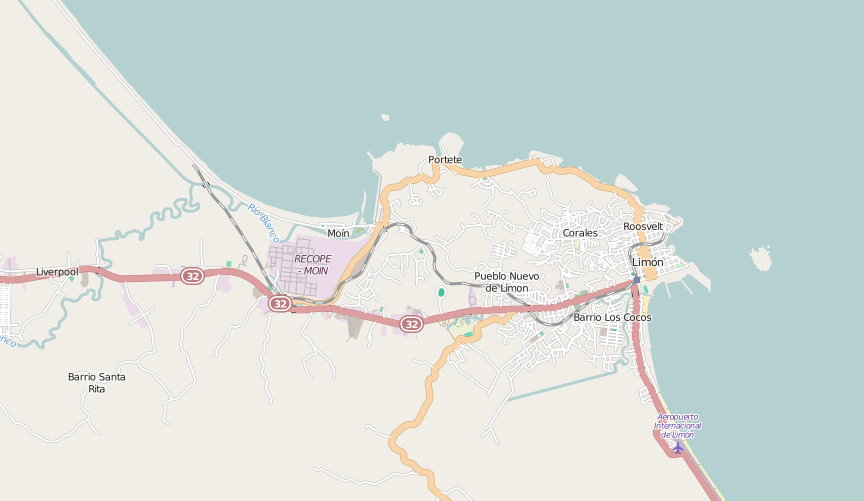 Map of Limón, Costa Rica